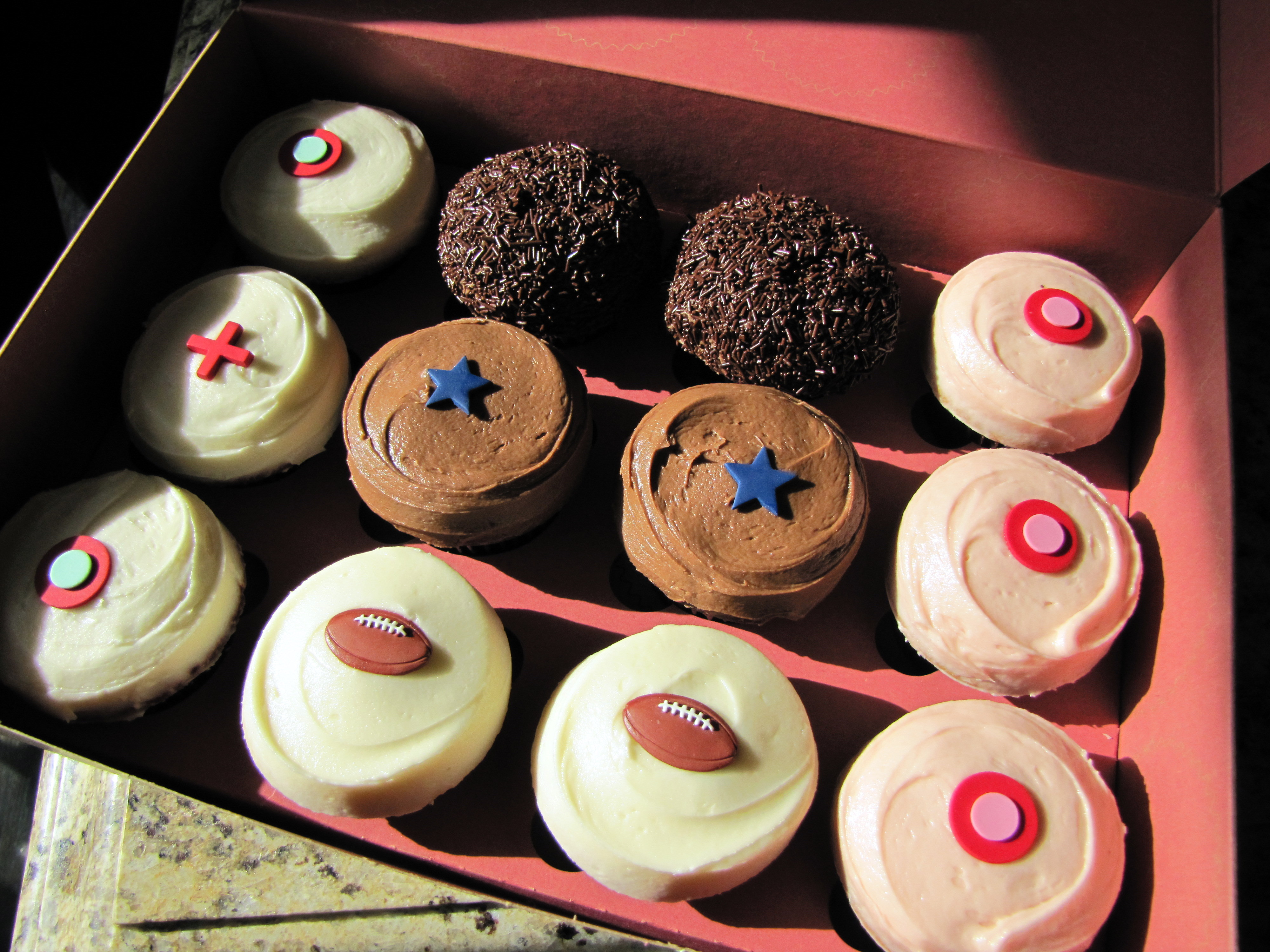 Box of Sprinkles Cupcakes in Dallas, Texas, in January, 2010, during their promotion with Red Cross Red Velvet cupcakes to benefit the Haiti Relief Fund (cc) David Berkowitz